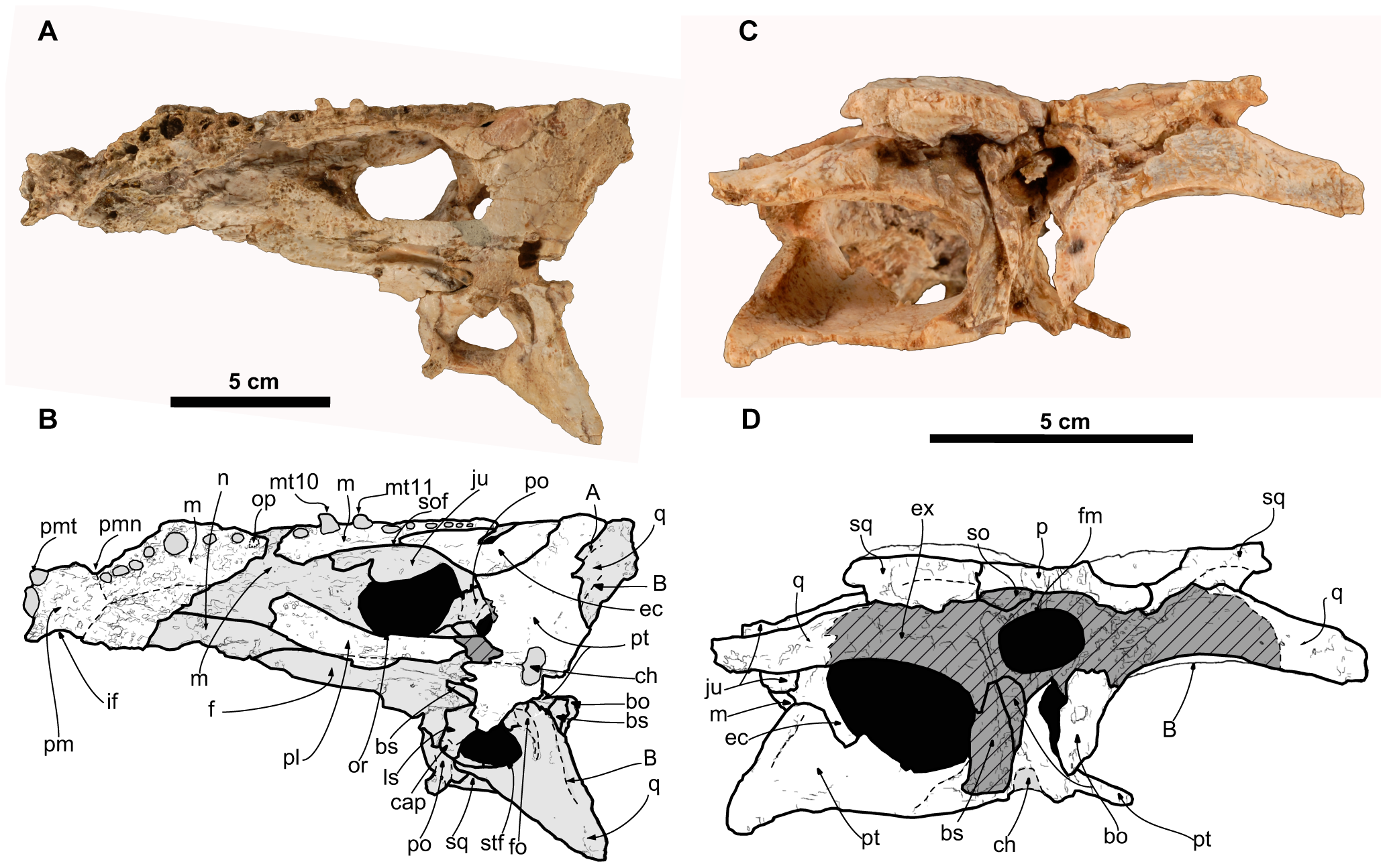 Skull of Arenysuchus gascabadiolorum (ELI-1). A–B, ventral view. C–D, posterior view. Hatched grey pattern represents broken surfaces. Anatomical Abbreviations: bo, basioccipital; bs, basisphenoid; cap, capitate process; ch, choana; ec, ectopterygoid; ex, exoccipital; f, frontal; fa, foramen aërum; fm, foramen magnum; fo, foramen ovale; if, incisive foramen; ju, jugal; ls, laterosphenoid; m, maxilla; mt10, maxillary tooth 10; mt11, maxillary tooth 11; n, nasal; op, 7th–8th occlusion pit; or, orbit; p, parietal; pl, palatine; pm, premaxilla; pmn, premaxillomaxillary notch; pmt, premaxillary tooth; po, postorbital; pt, pterygoid; q, quadrate; so, supraoccipital; sof, suborbital fenestra; sq, squamosal; stf, supratemporal fenestra; A and B, muscle scars on the quadrate.